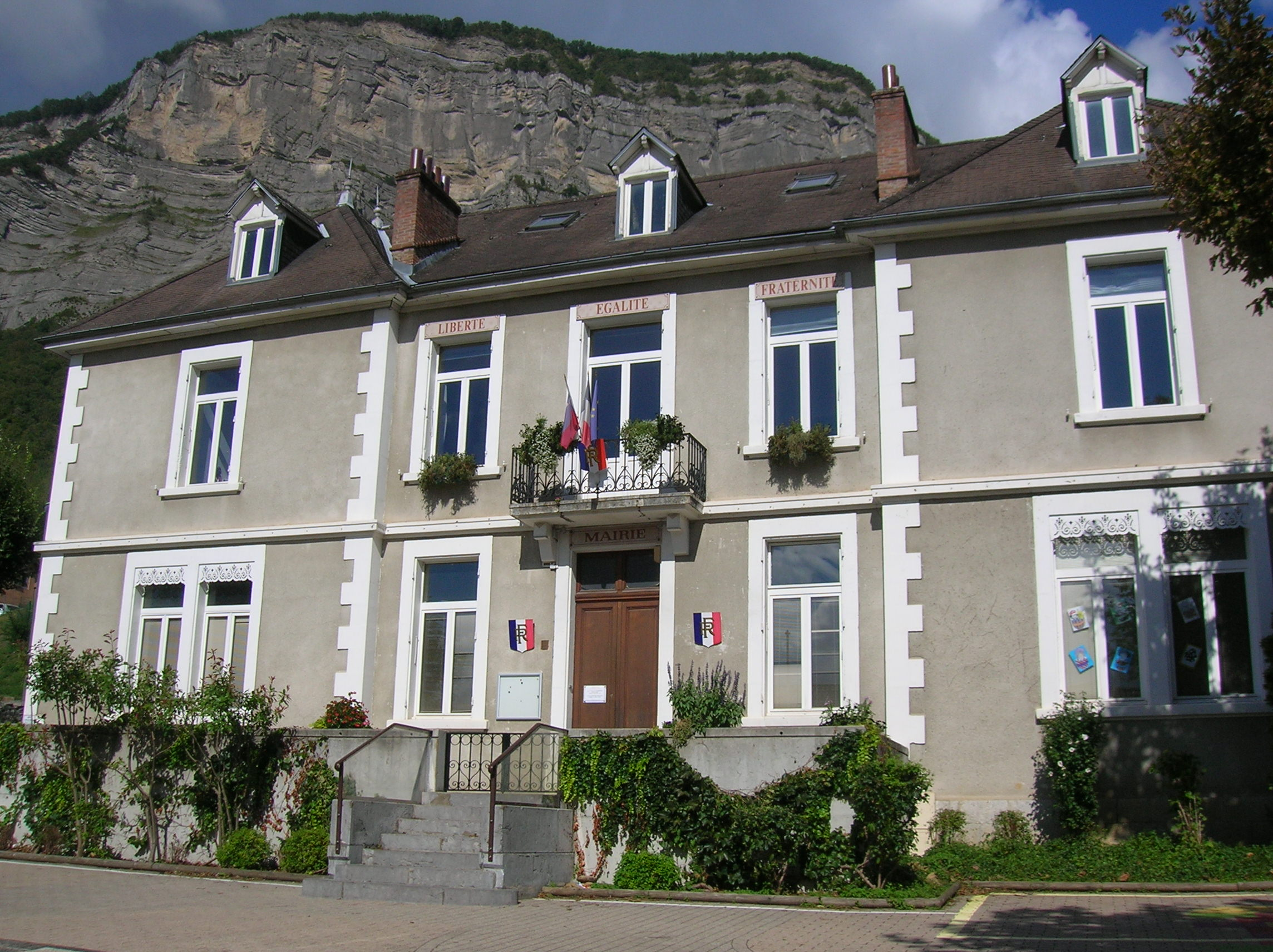 Town hall of Lumbin, Isère, France.